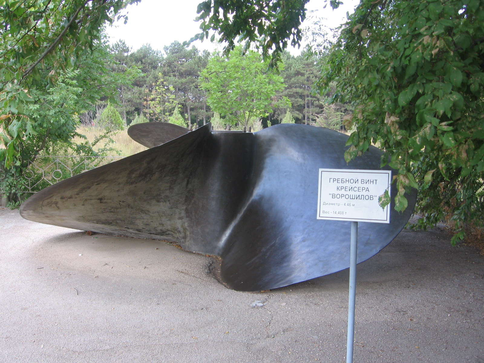 Soviet propeller, manufactured in 1956, from Voroshilov, a Kirov class cruiser. Since 1974 displayed at the Museum of Heroic Defense and Liberation of Sevastopol on Sapun Mountain in Sevastopol. Its weight is 14.408 tons and diameter is 4.46 meters. DE: Schiffspropeller, Kreuzer Woroschilow, Sewastopol, Museum der heldenhaften Verteidigung und Befreiung Sewastopols